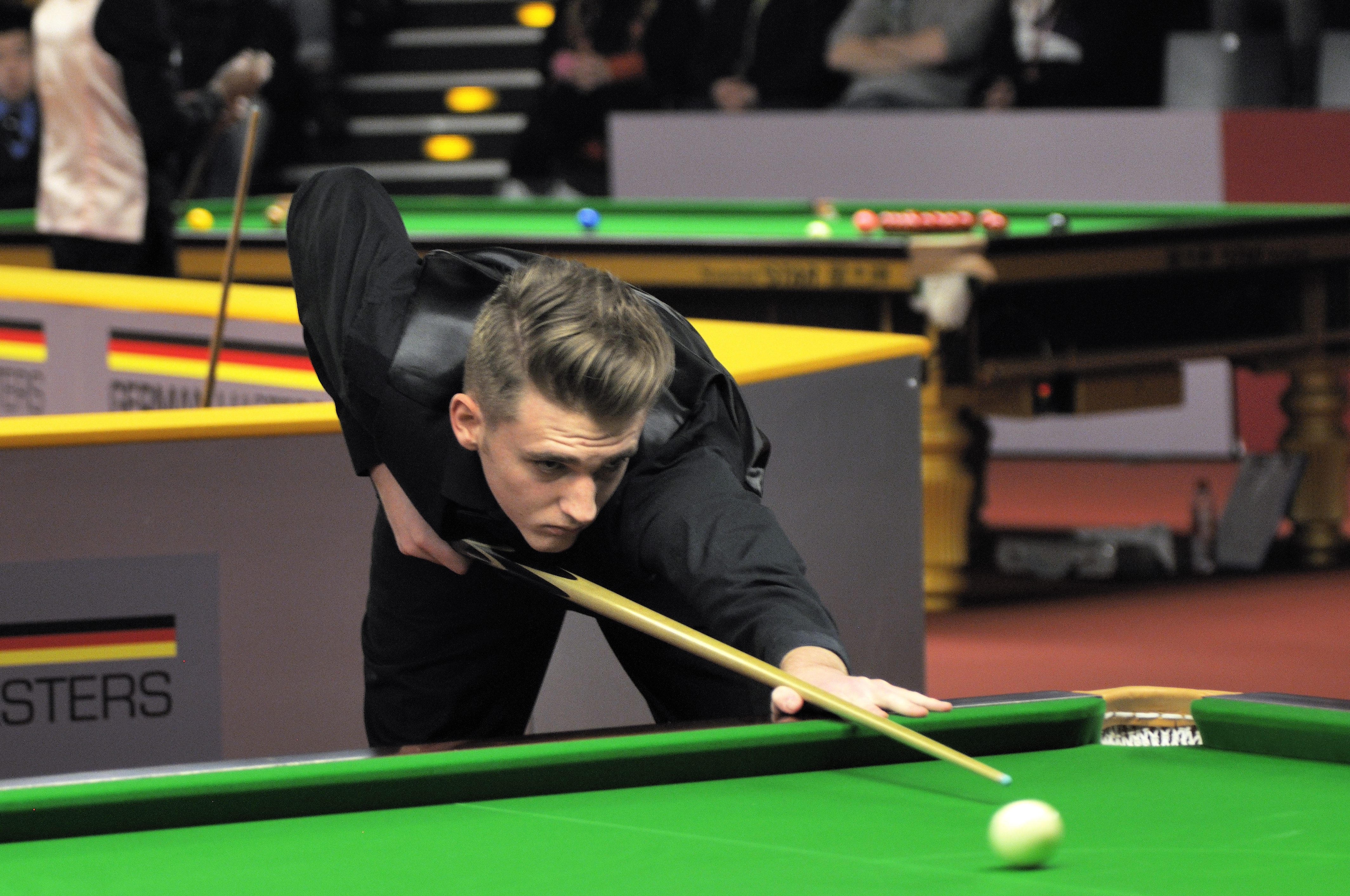 Picture taken in Berlin during the Snooker German Masters in 2014. Joel Walker.